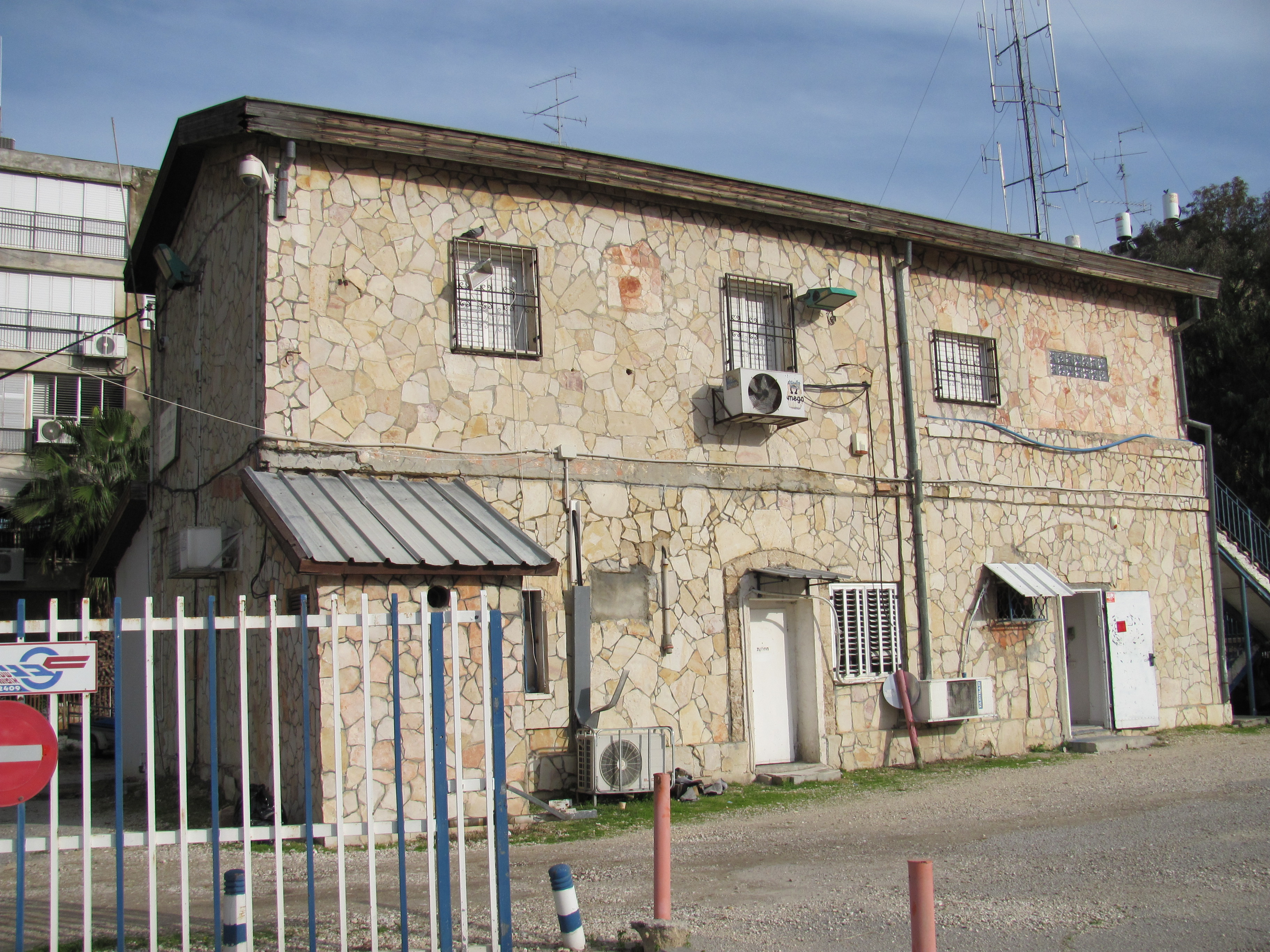 Old Lod Othman Railway Station